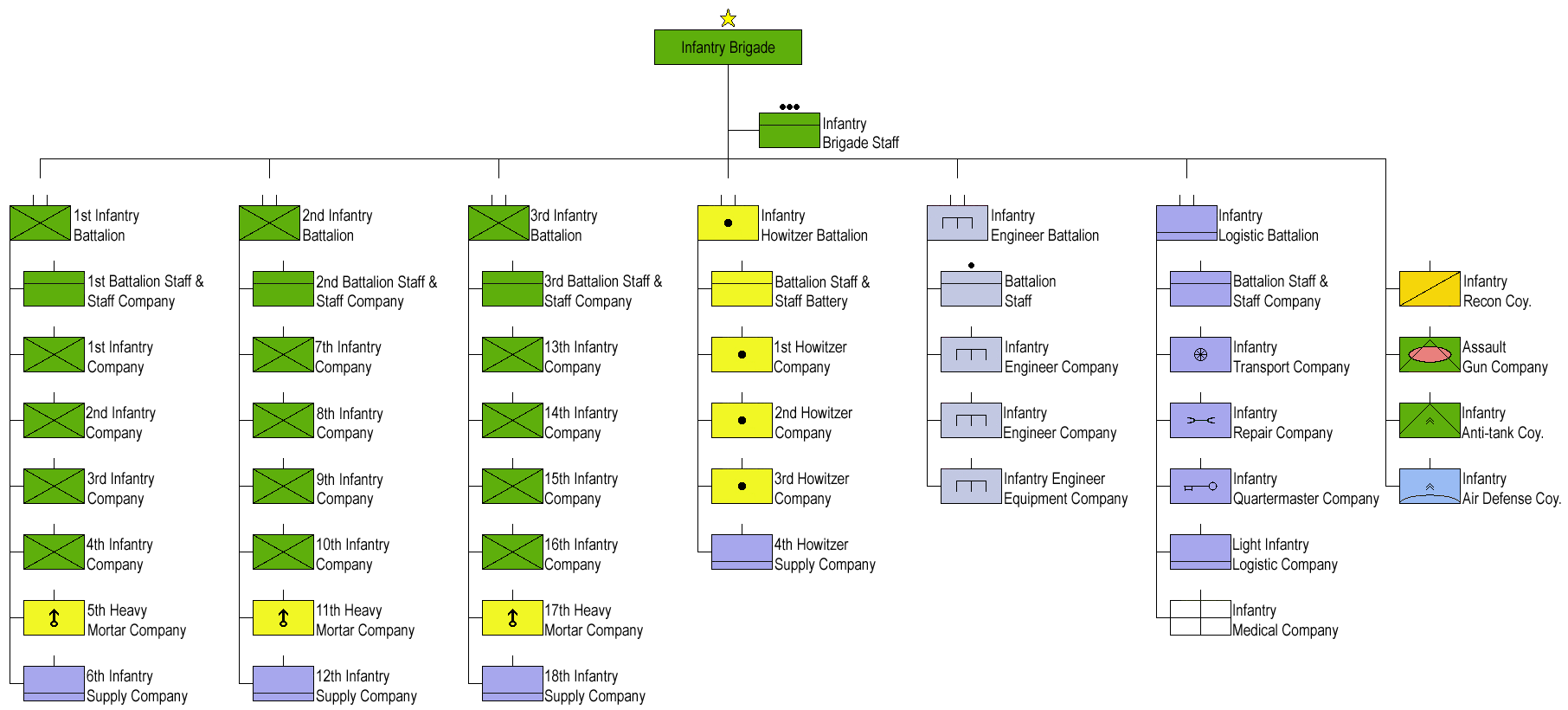 Structure of the Swedish Infantry Brigade Type 66M